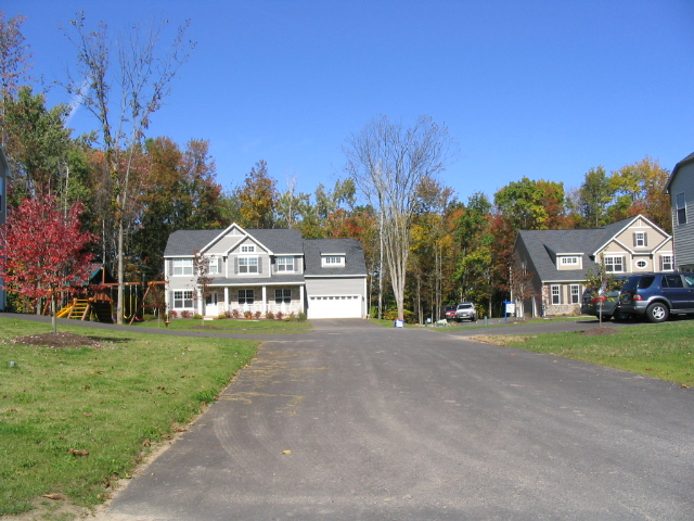 photo of a Radisson neighborhood in Lysander, NY, taken by me on October 8, 2006